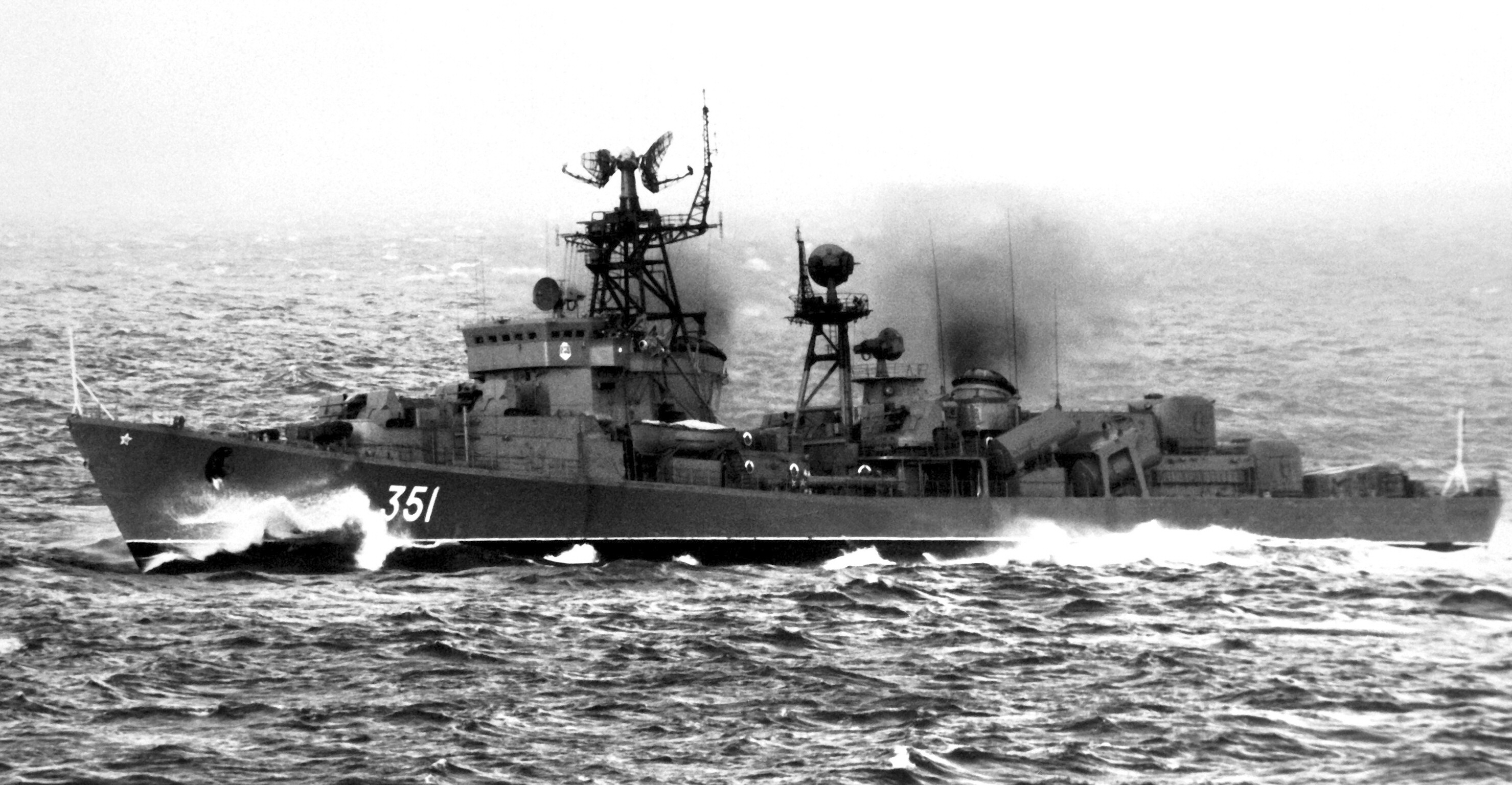 A port beam view of the Soviet guided missile destroyer Prozorlivy as it observes the operations of the amphibious command ship USS MOUNT WHITNEY (LCC 20) during exercise NORTHERN WEDDING '82.